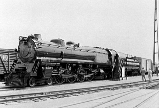 Baltimore and Ohio Railroad duplex locomotive, class N-1 #5600 George H. Emerson, at the 1939 New York World's Fair.